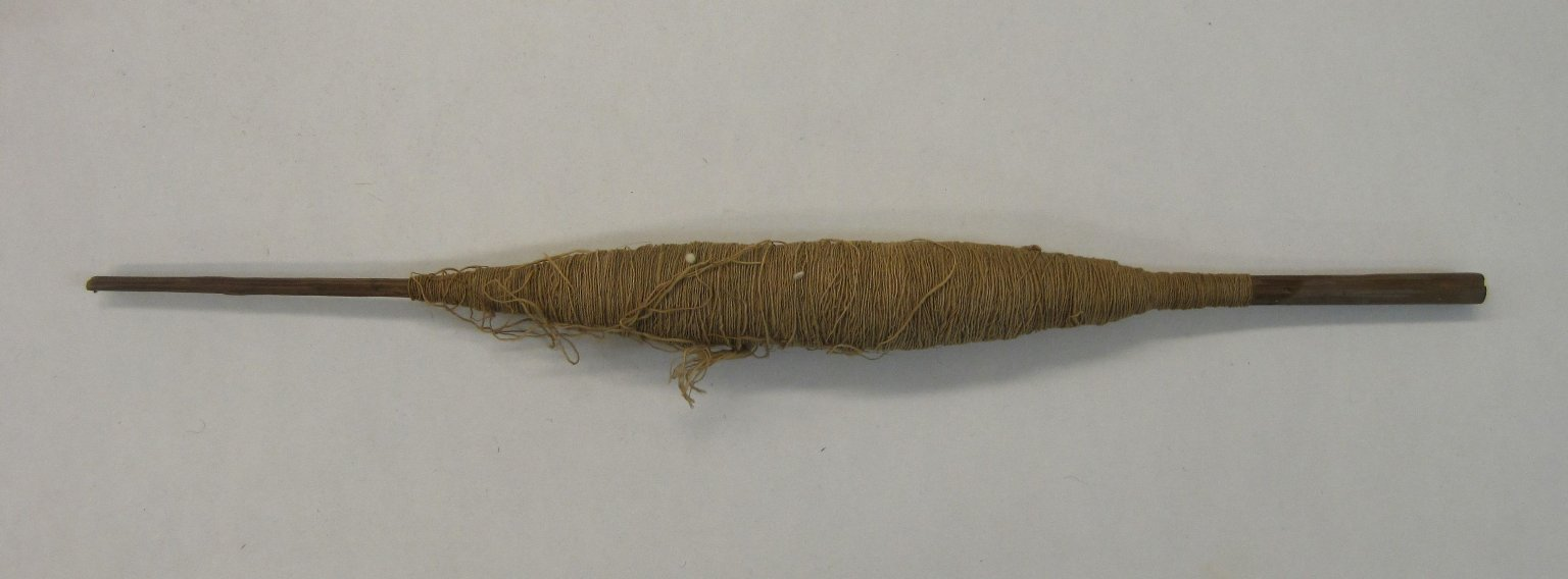 Spindle without Whorl, whole or Spindle with Cotton Yarn, Fragment ARTS OF THE AMERICAS CULTURE Possibly Paracas MEDIUM Cane, cotton DATES 200-600 C.E. (?) or Undetermined PERIOD Early Intermediate Period DIMENSIONS 12 5/8 x 1 3/16 x 1 3/16in. (32 x 3 x 3cm) Yarn wrapped around spindle height: 7 1/2in. (19cm) (show scale) COLLECTIONS Arts of the Americas MUSEUM LOCATION This item is not on view ACCESSION NUMBER 42.26.3 CREDIT LINE Gift of Daniel Berry Austin RIGHTS STATEMENT Creative Commons-BY CAPTION Possibly Paracas. Spindle without Whorl, whole or Spindle with Cotton Yarn, Fragment, 200-600 C.E. (?) or Undetermined. Cane, cotton, 12 5/8 x 1 3/16 x 1 3/16in. (32 x 3 x 3cm). Brooklyn Museum, Gift of Daniel Berry Austin, 42.26.3. Creative Commons-BY (Photo: Brooklyn Museum, CUR.42.26.3.jpg) IMAGE overall, CUR.42.26.3.jpg. Brooklyn Museum photograph, 2019